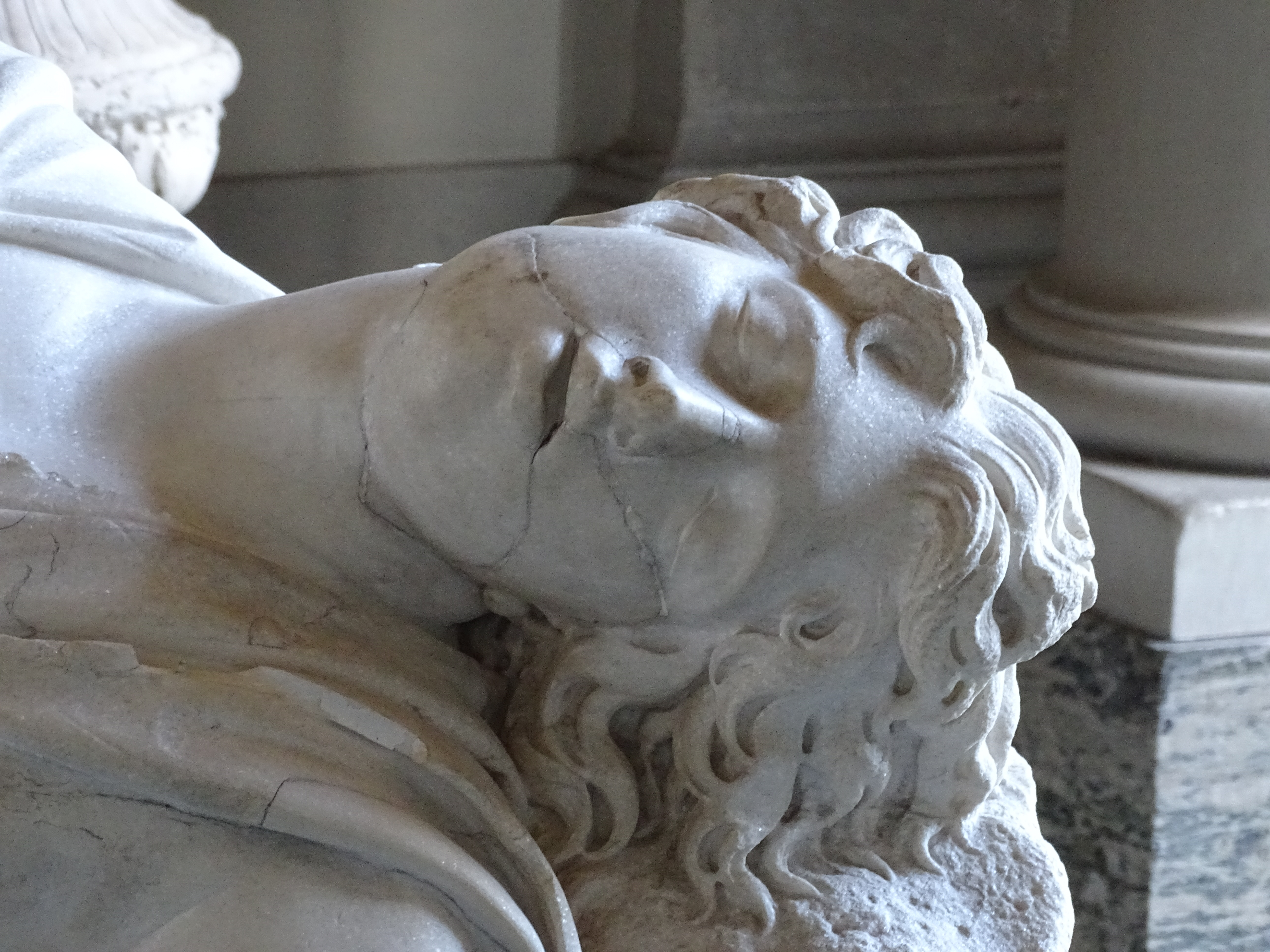 Statue of Endymion (ca. 140 C.E.) in Gustav IIIs Antikmuseum, Royal Palace, Stockholm, Sweden.